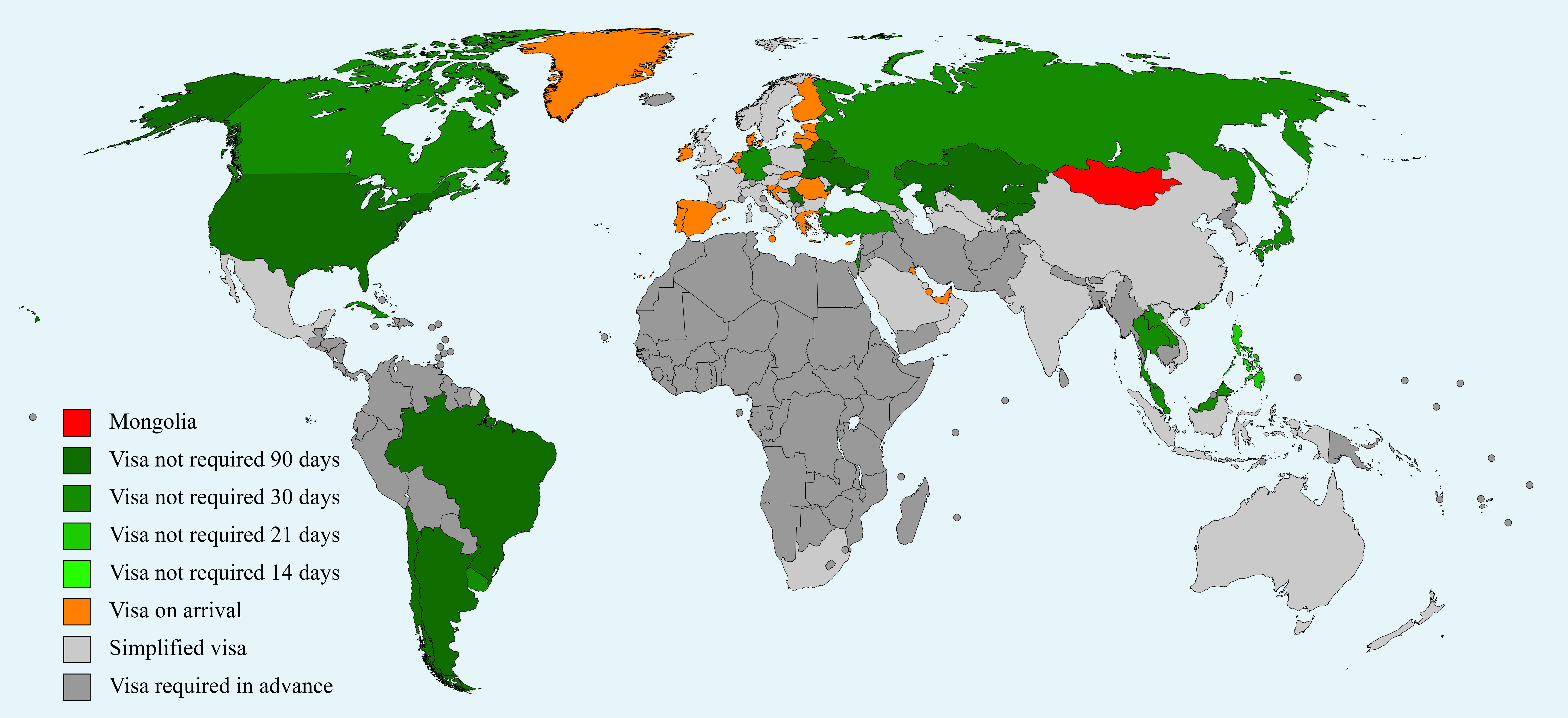 Visa policy of Mongolia Mongolia Visa-free - 90 days Visa-free - 30 days Visa-free - 21 days Visa-free - 14 days Visa required